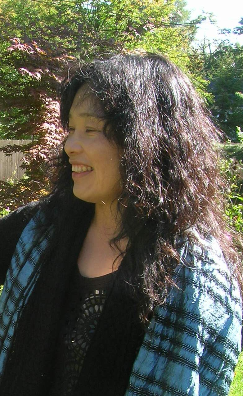 Photograph of the poet Hiromi Ito taken by Jeffrey Angles during her visit to Kalamazoo, MI in Oct 2008.